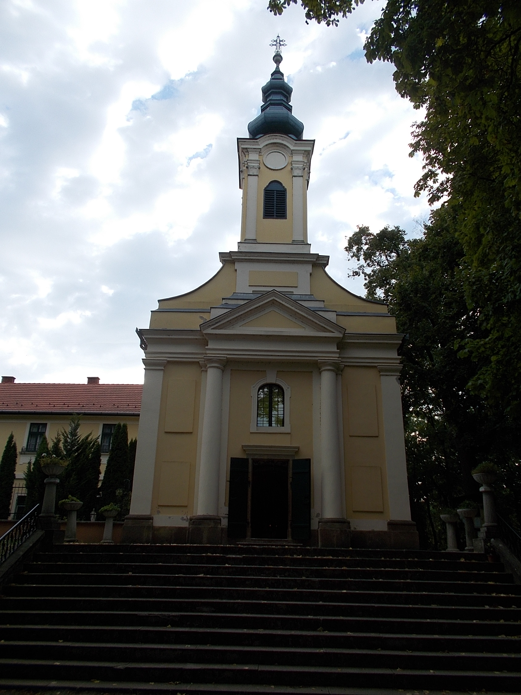 Seven Chapels. Listed ID 7499. - 2 Derecske Dune, Vác, Pest County, Hungary